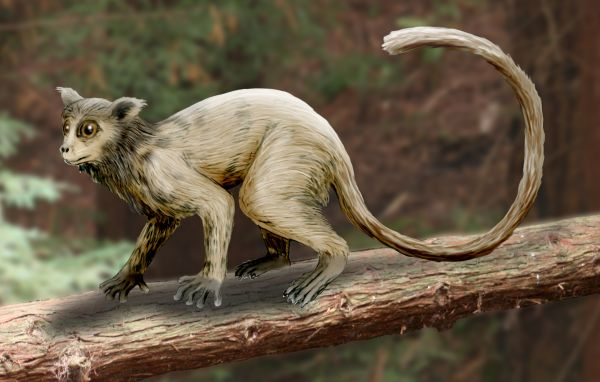 Necrolemur